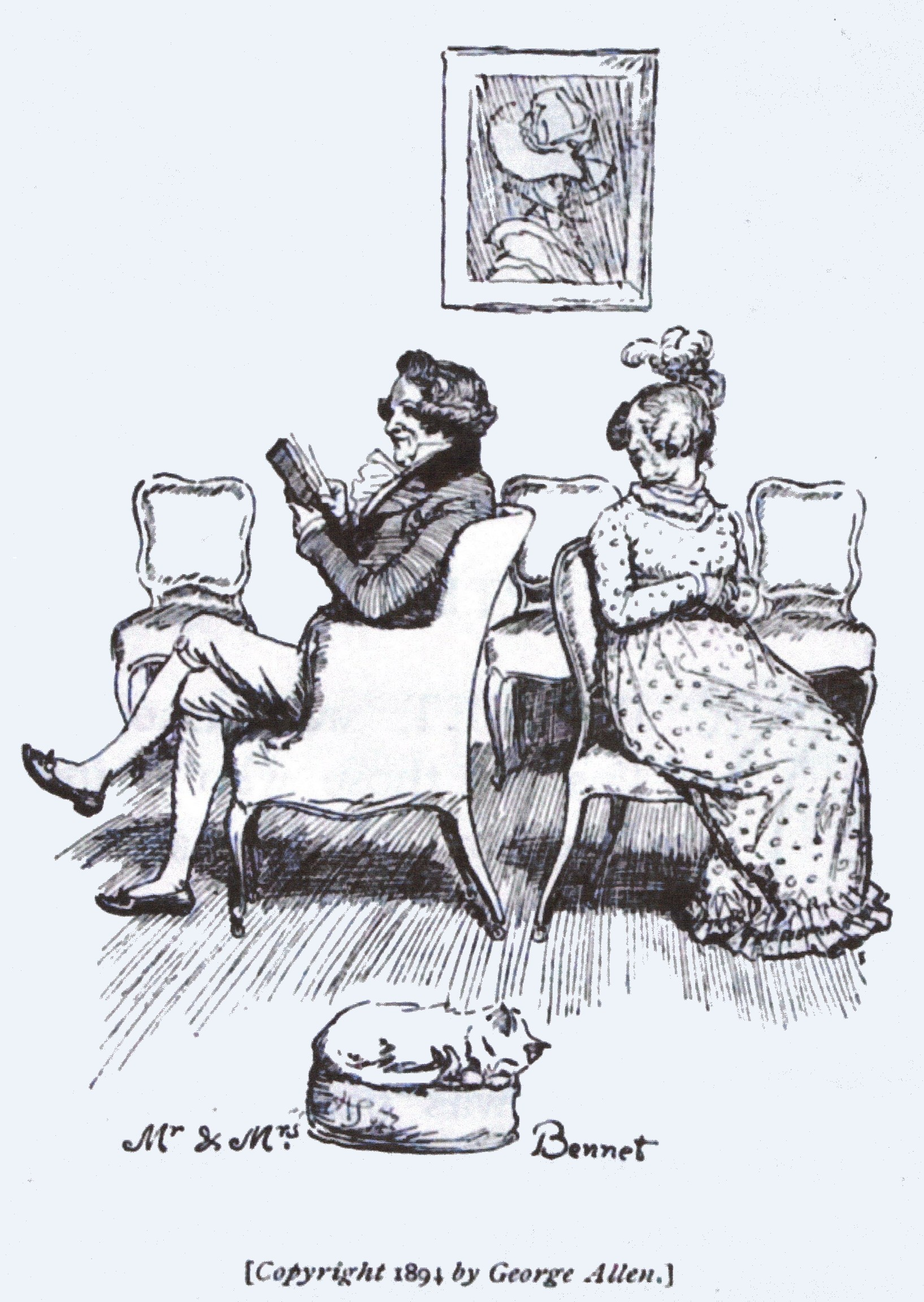 Mr. and Mrs. Bennet. Austen, Jane. Pride and Prejudice. London: George Allen, 1894, page 5.